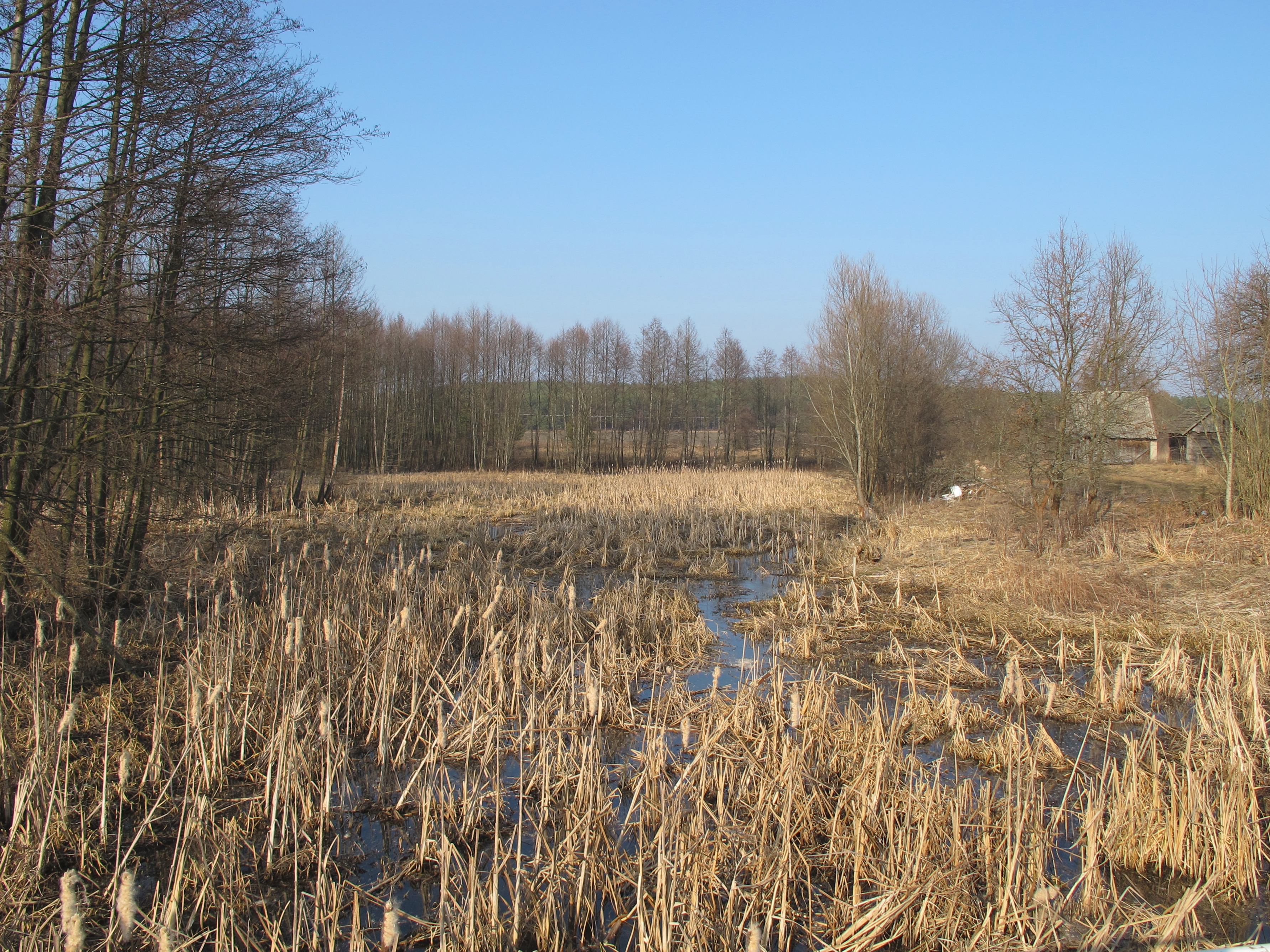 Słoja river in Nowinka, gmina Szudziałowo, podlaskie, Poland